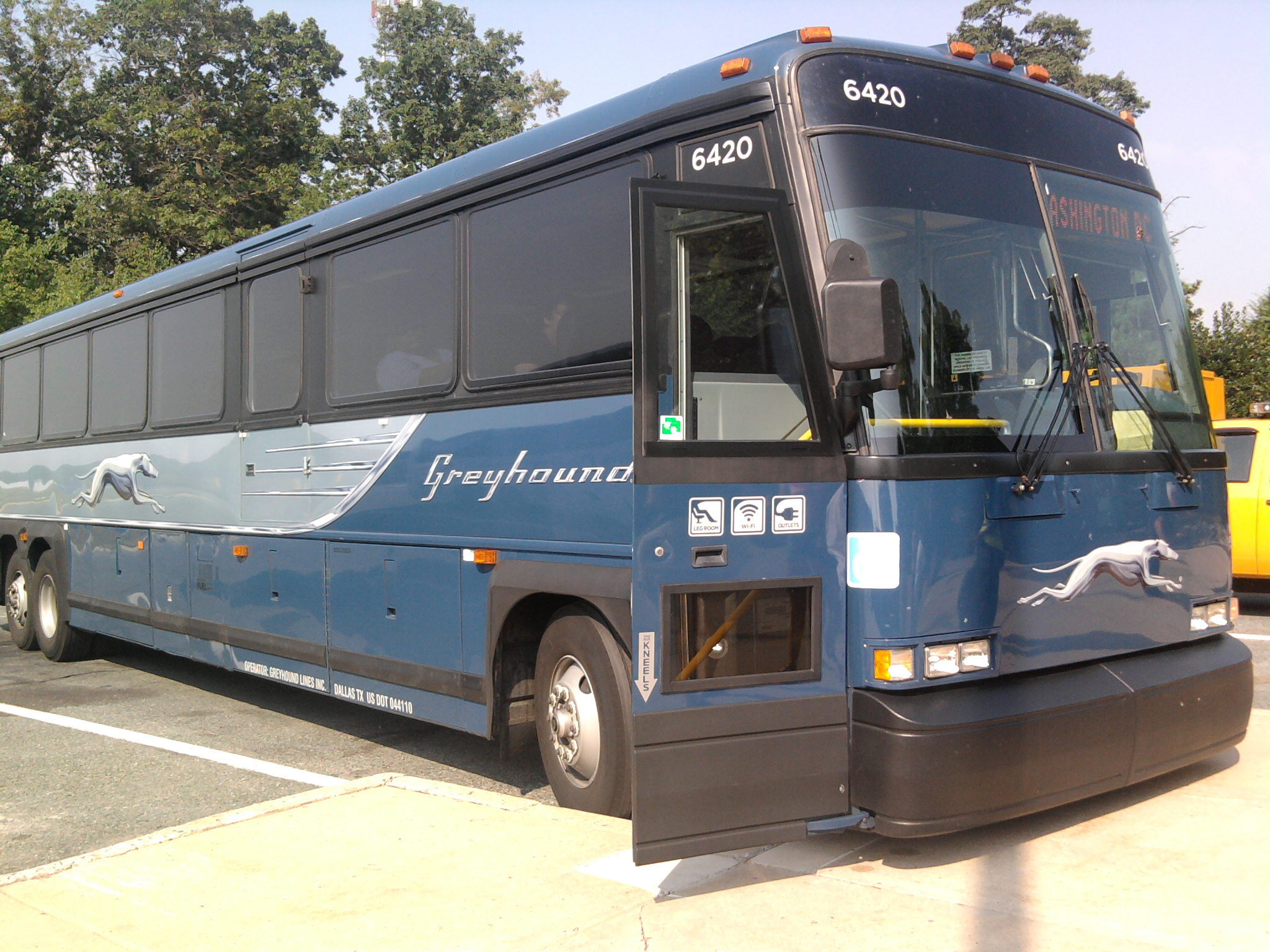 Greyhound bus stopping at a rest area